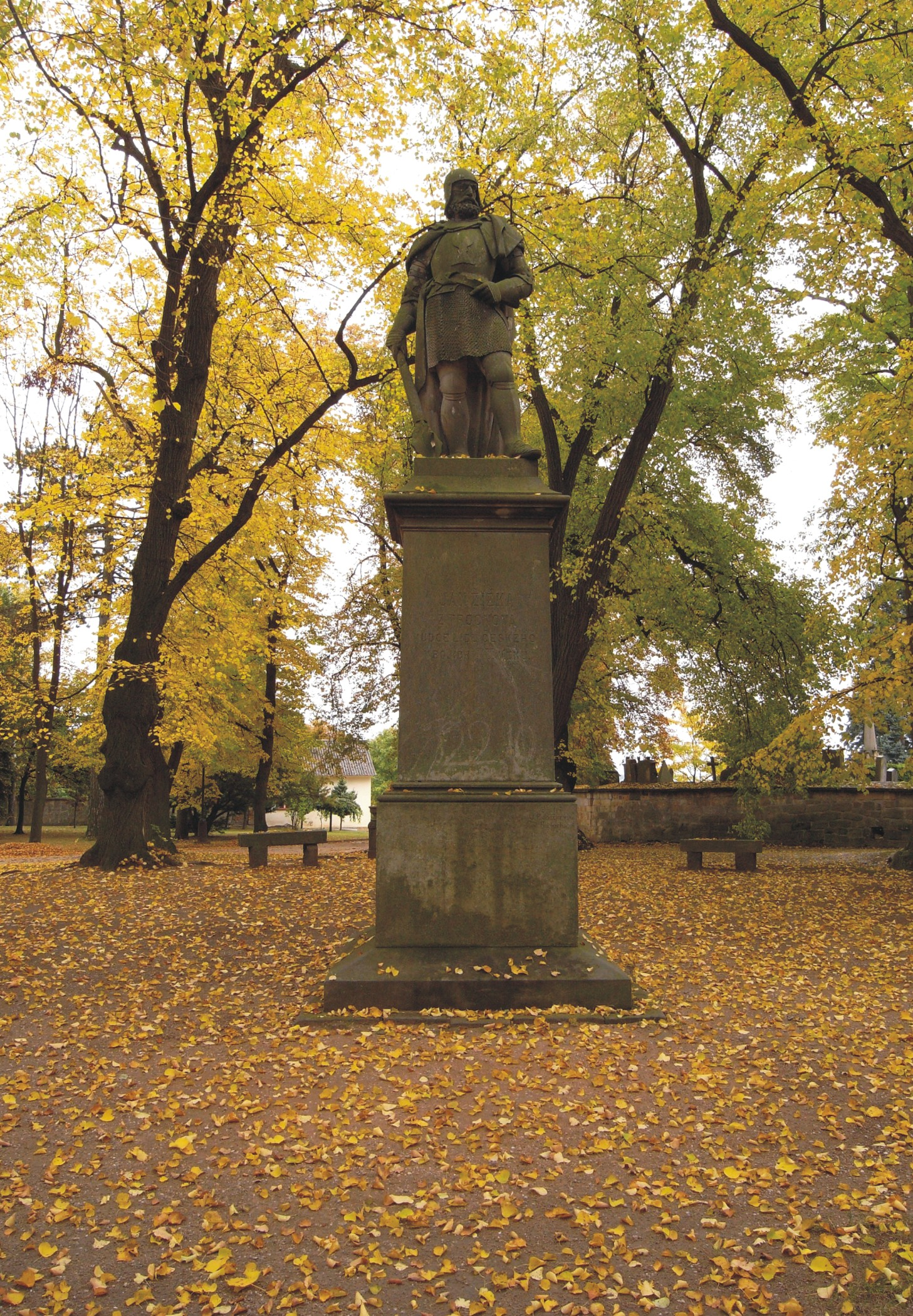 memorial of Jan Žižka of the St. Gothard hill in Hořice (Czech Republic); sculptors: brothers J. + P. Jiřičkové / Hořice